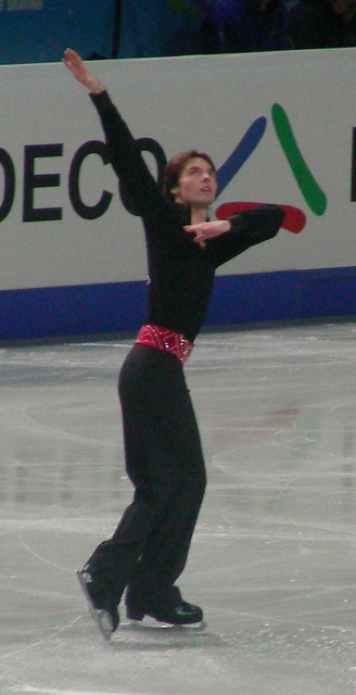 Gregor Urbas on the 2007 European Figure Skating Championships in Warsaw - free skate